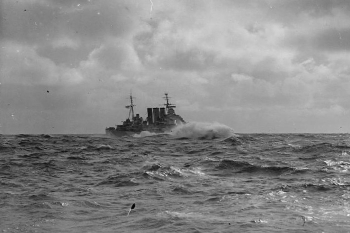 IWM caption : One of the escort cruisers, HMS BERWICK, "taking it green" as water crashes over her bows off the Norwegian coast. FURTHER INFORMATION: On the 22 - 24 August and on the 29 August Fleet Air Arm aircraft of the Home Fleet carried out a series of raids on targets in Norway and particularly on the German battleship TIRPITZ in her hideout in the Alten Fjord on 29 August.